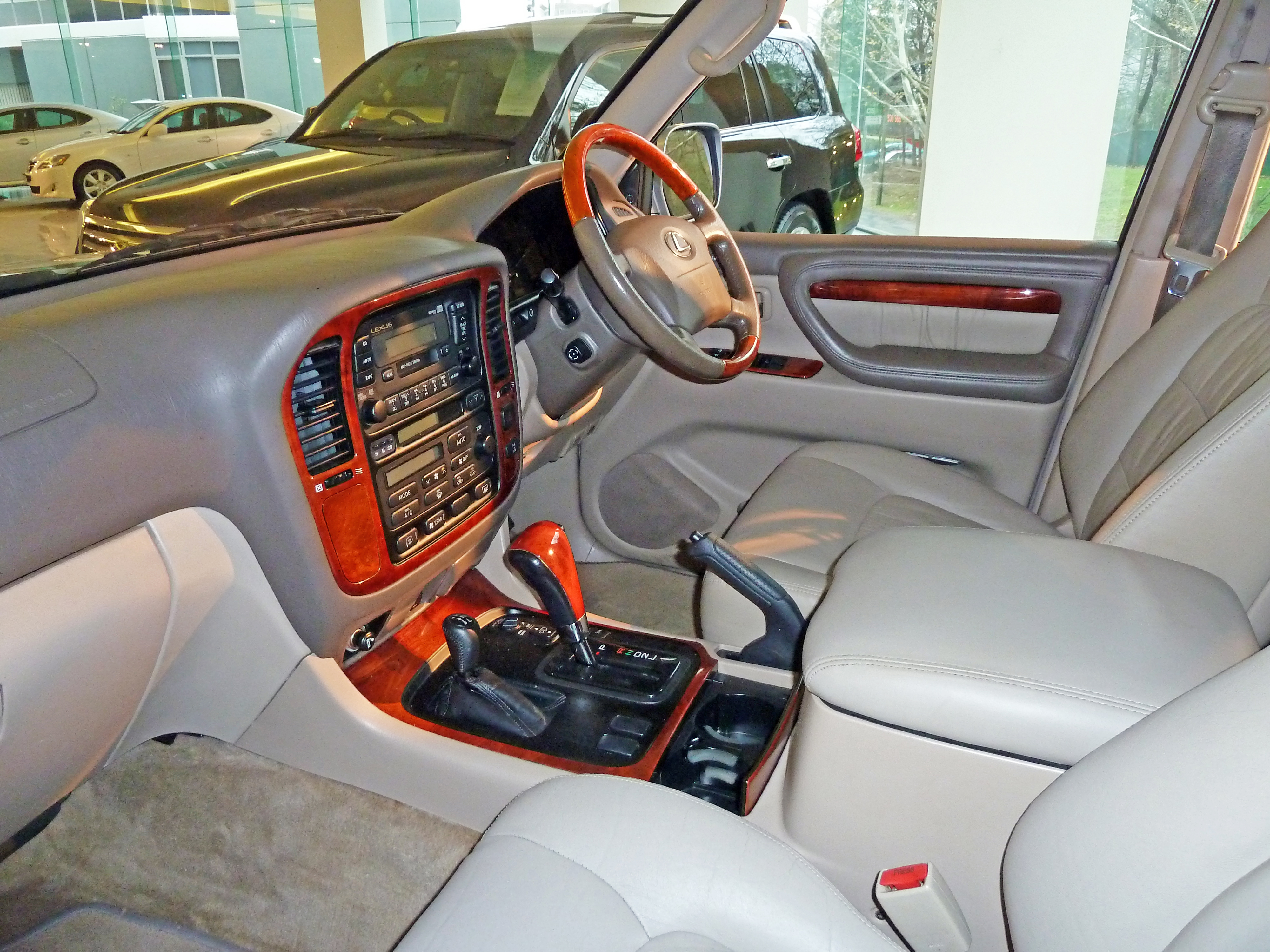 2000 Lexus LX 470 (UZJ100R) wagon. Photographed at Sydney City Lexus, Waterloo, New South Wales, Australia.